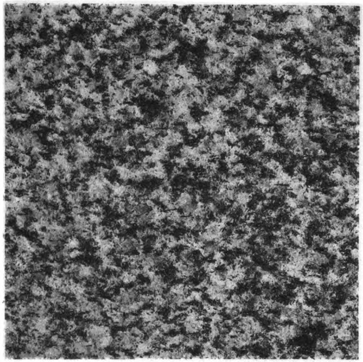 Plate XIII of 1898 publication called Maryland Geological Survey Volume Two, with caption "GRANITE, Waltersville, Baltimore County." It shows what is now called the Woodstock Quartz Monzonite. Width is approximately 10.7 cm.